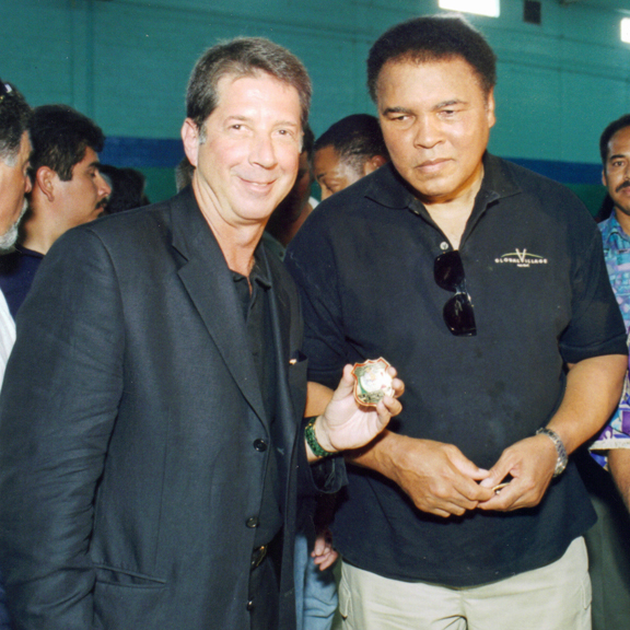 2000 Juárez Honorary Chief of Police, Yank Barry was made Honorary Chief of Police by the Police Commissioner of Juárez